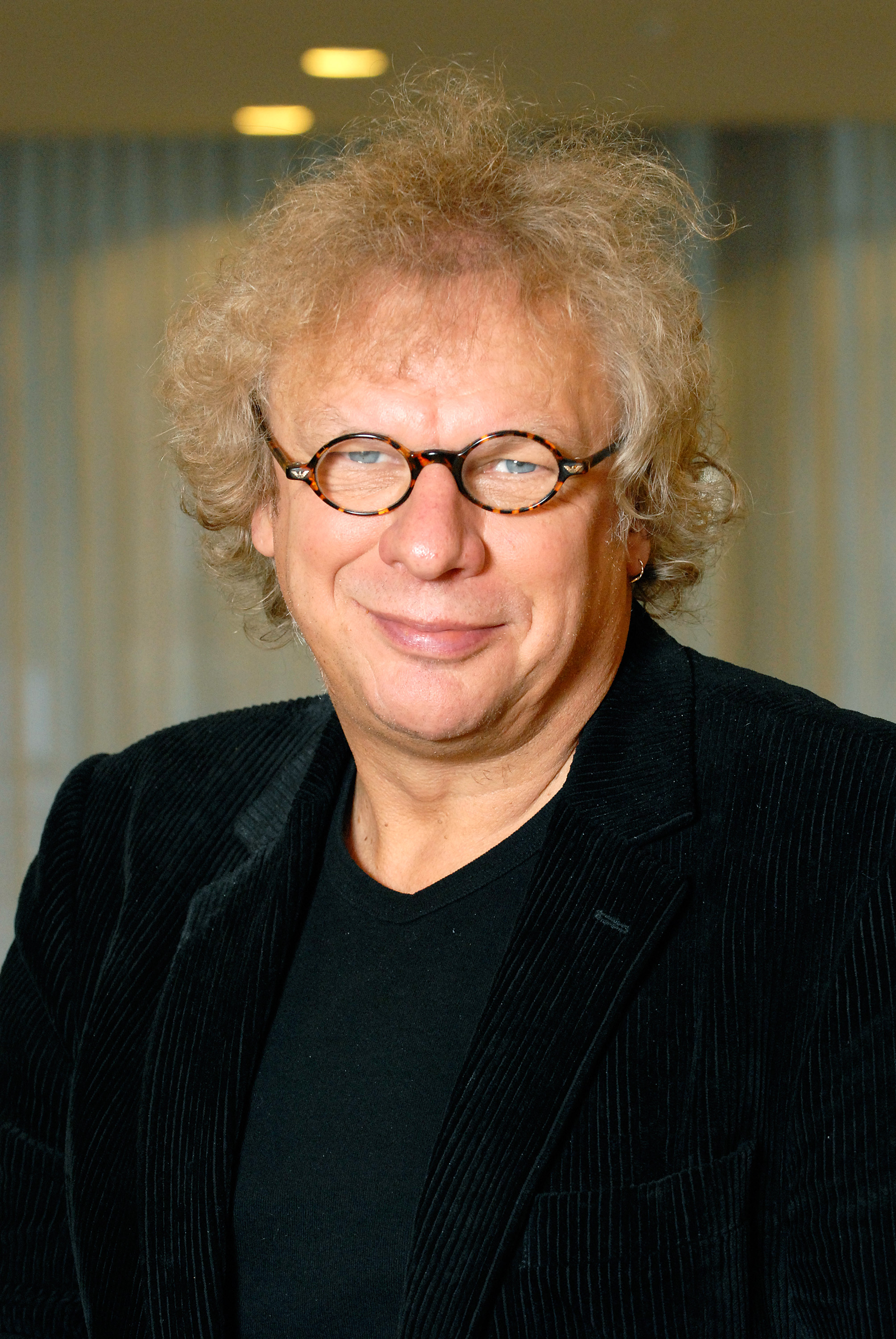 Tommy Tabermann (sd) Finland Keywords: Tommy Tabermann